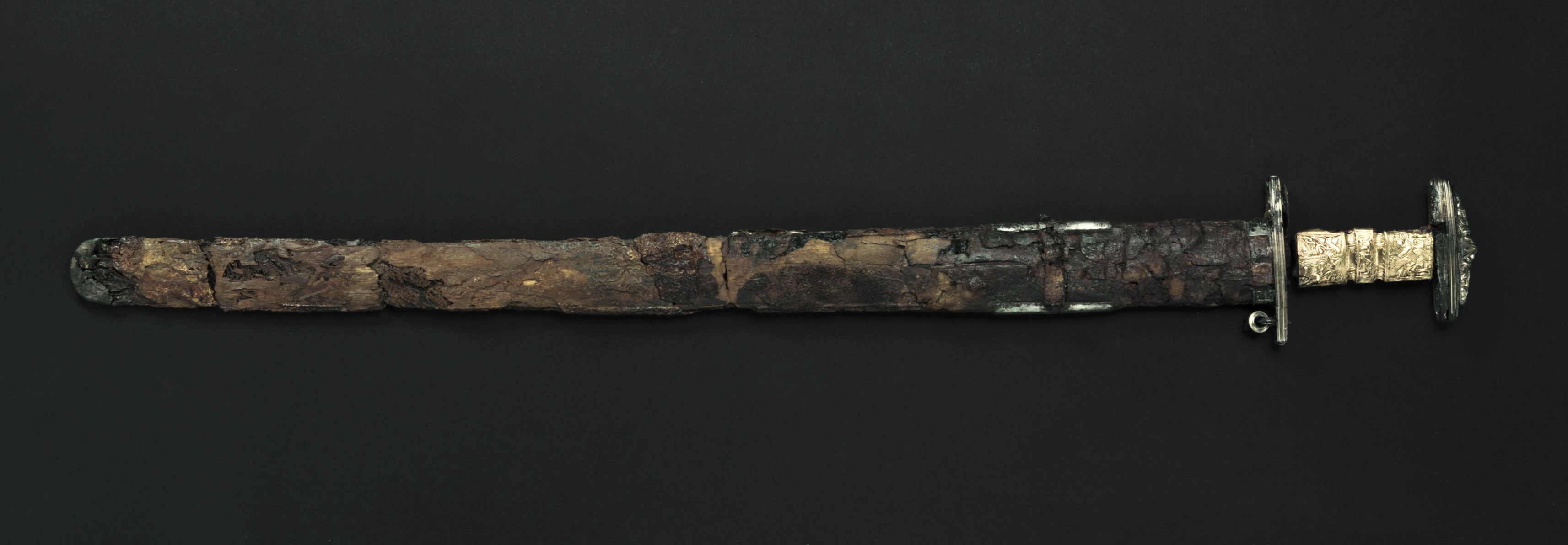 Snartemo-sword